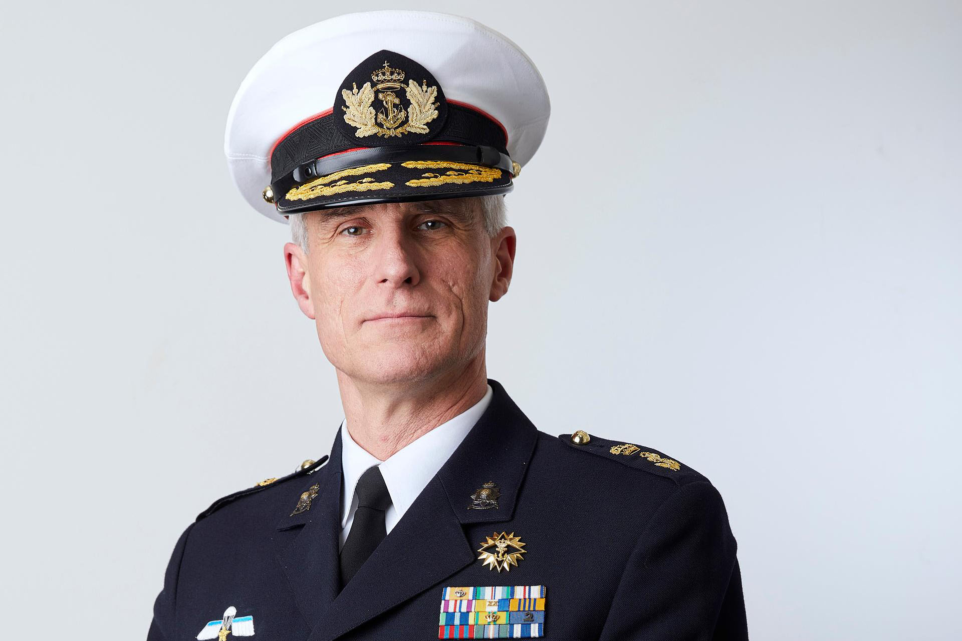 Generaal-majoor Richard Oppelaar wordt de nieuwe commandant van de Nederlandse Defensie Academie. Hij volgt per 21 november generaal-majoor Nico Geerts op. Oppelaar is nu nog Directeur Directie Operaties.